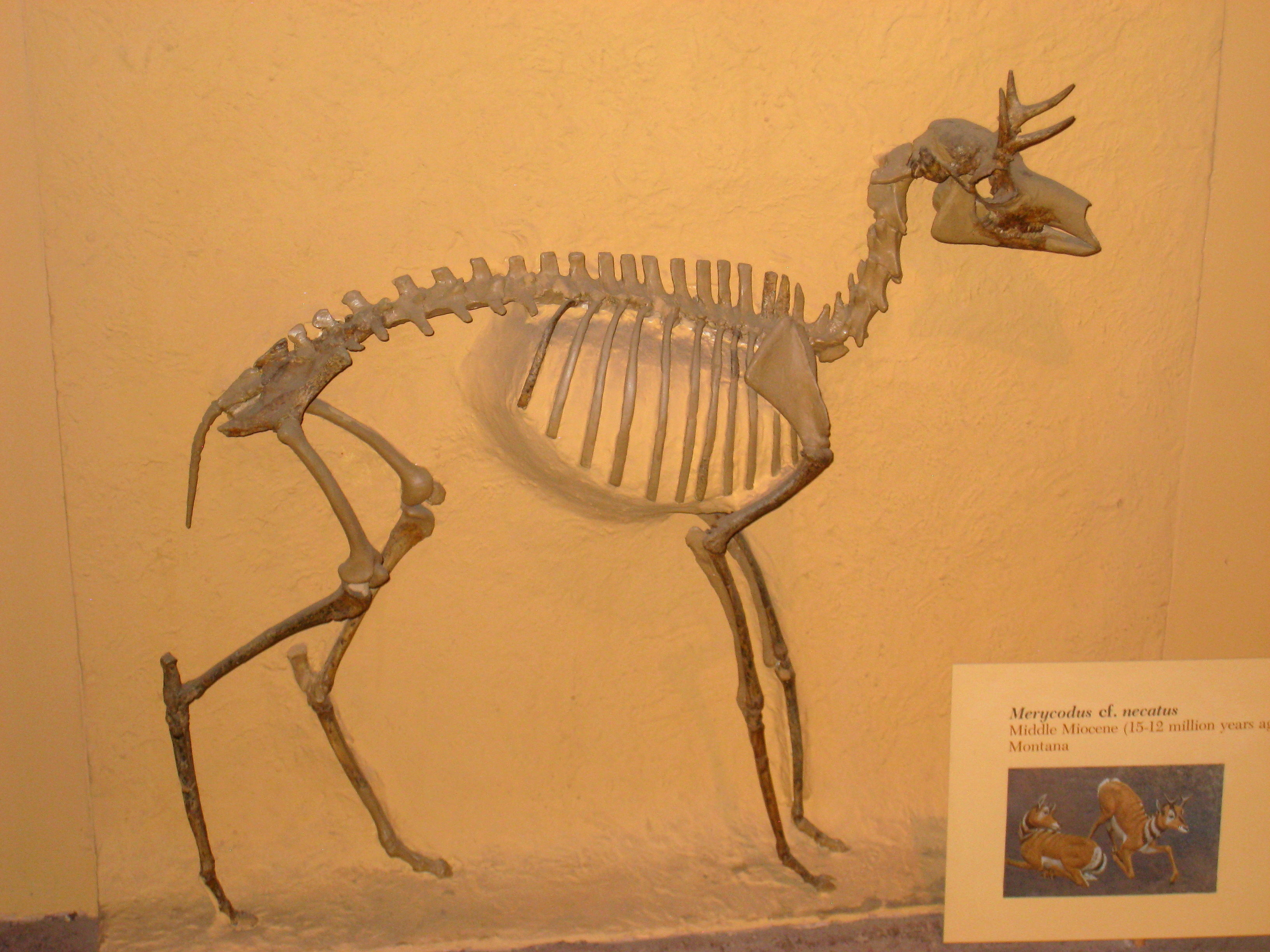 Merycodus cf. nectatus fossil specimen in the National Museum of Natural History, Smithsonian Institution, Washington, DC, USA.